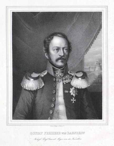 Gustav Freiherr von Barnekow (1816–1882)